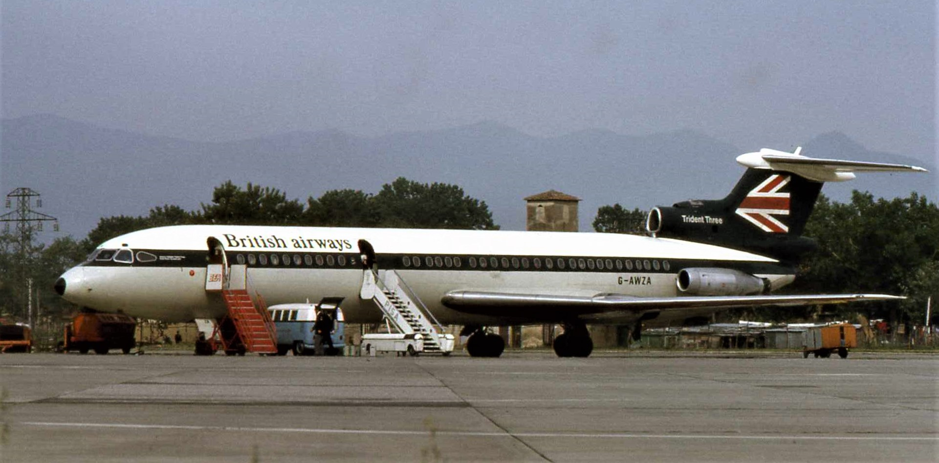 Italy, Pisa International Airport. British Airways Hawker Siddeley Trident 3B, G-AWZA, c/n 2302 delivered to British European Airways on January 11, 1974. Here is taken at Pisa in 1975 after the merger with BOAC on April 1, 1974, with the new airline name. Was withdrawn from use in October 1982, stored at London Heathrow Airport and broken up in January 1984.